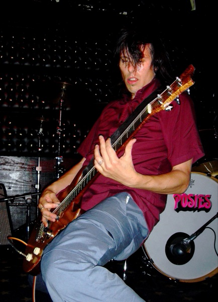 Ken Stringfellow of The Posies playing guitar.